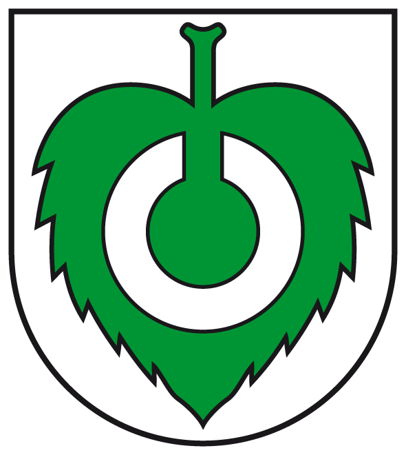 Coat of Arms of Jembke